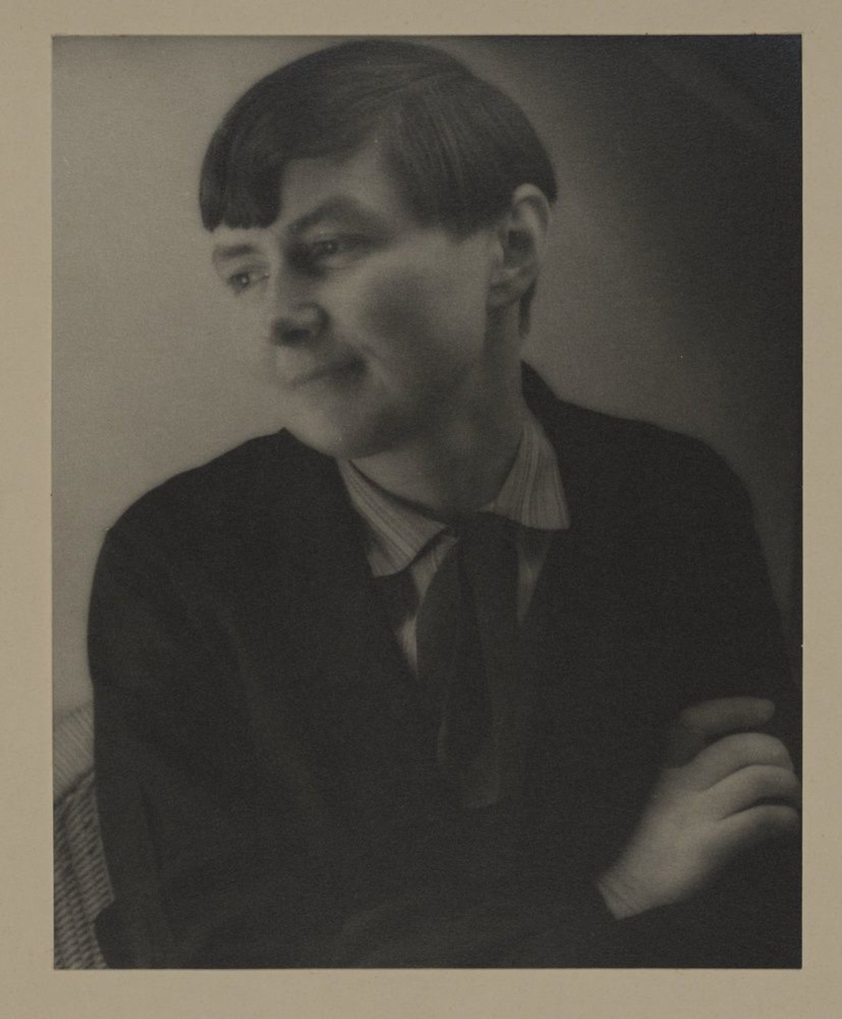 Image of Benita Koch-Otte taken by her husband, Heinrich Koch, in the late 1920s